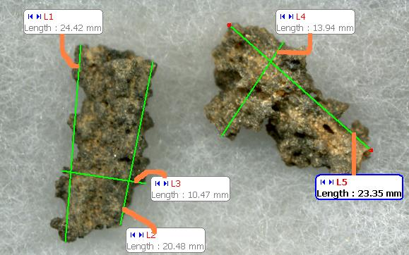 Measurements of two fulgurites